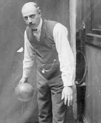 Photograph of ABC national bowling champion Frank Brill